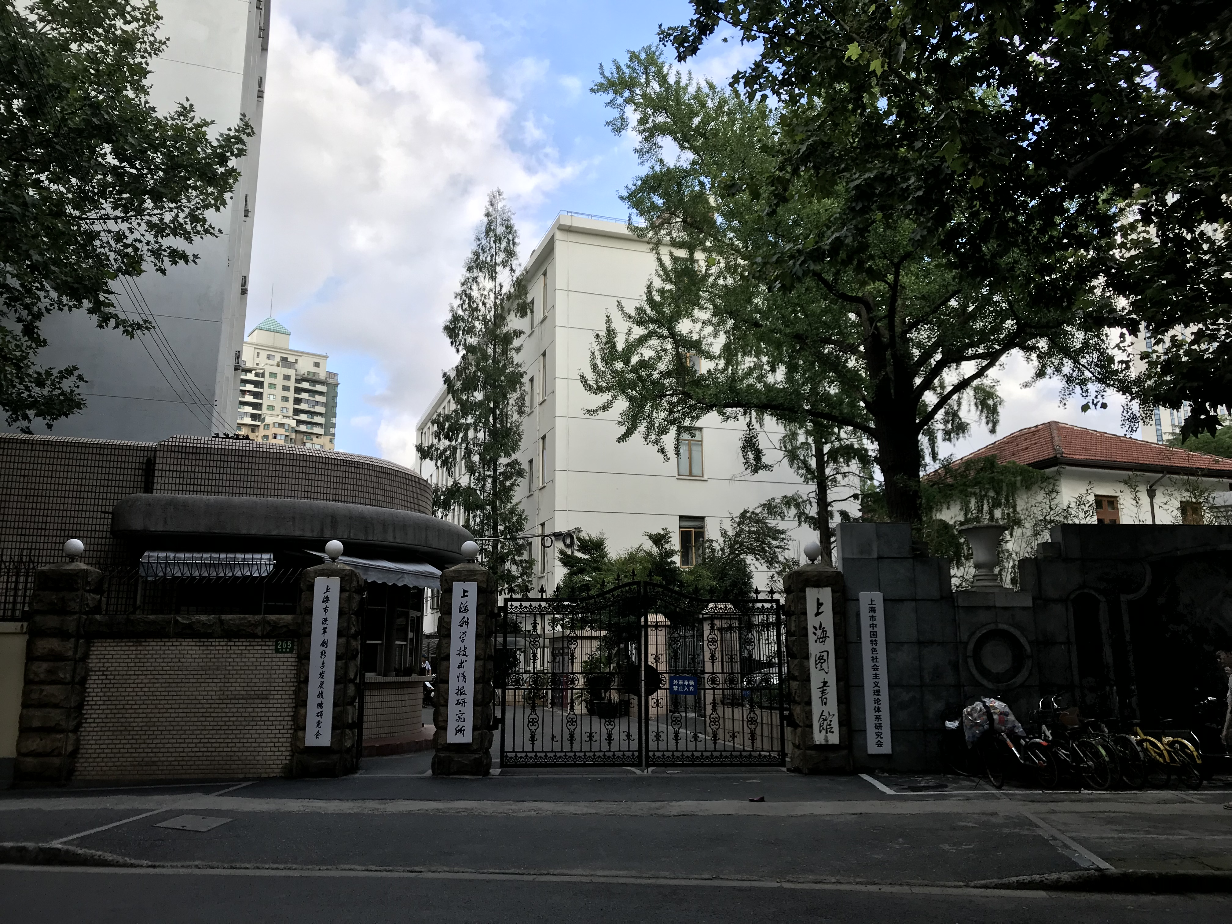 201908 Shanghai Institute of Scientific and Technological Information on Yongfu Road